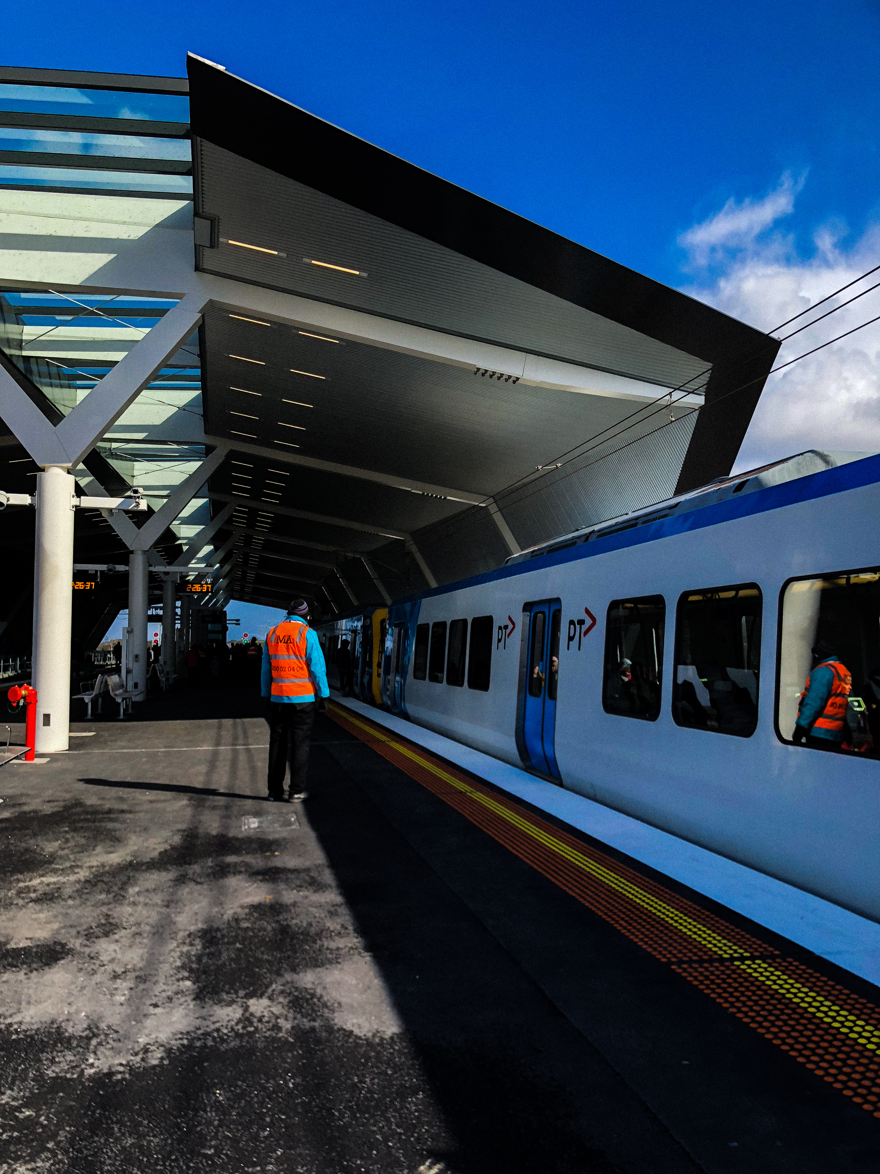 Mernda Railway Station during the Community Sneak Peek Day.